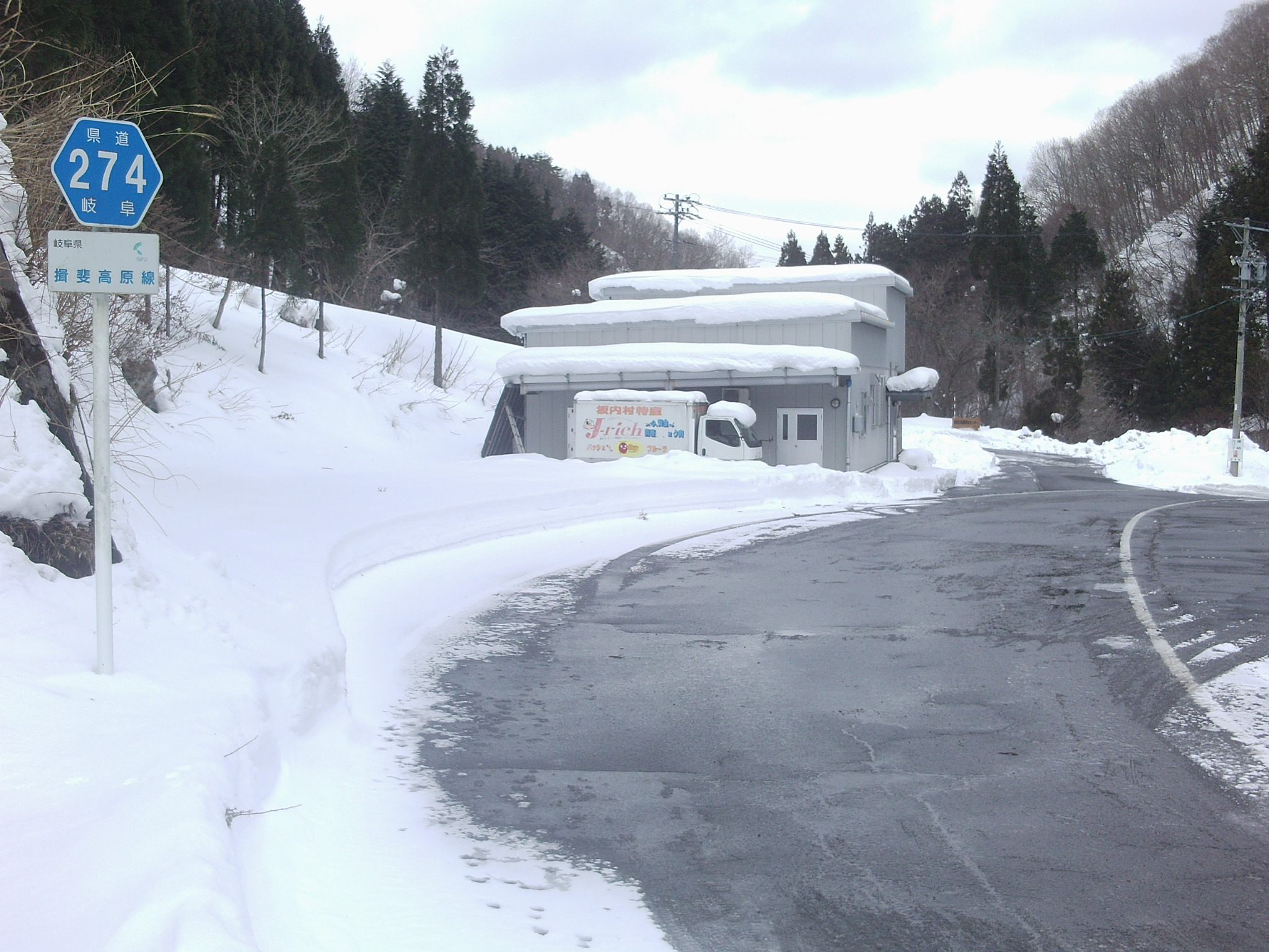 Starating point of Gifu prefectural road No.274 in Sakauchi Sakamoto, Ibigawa town, Ibi-gun, Gifu.